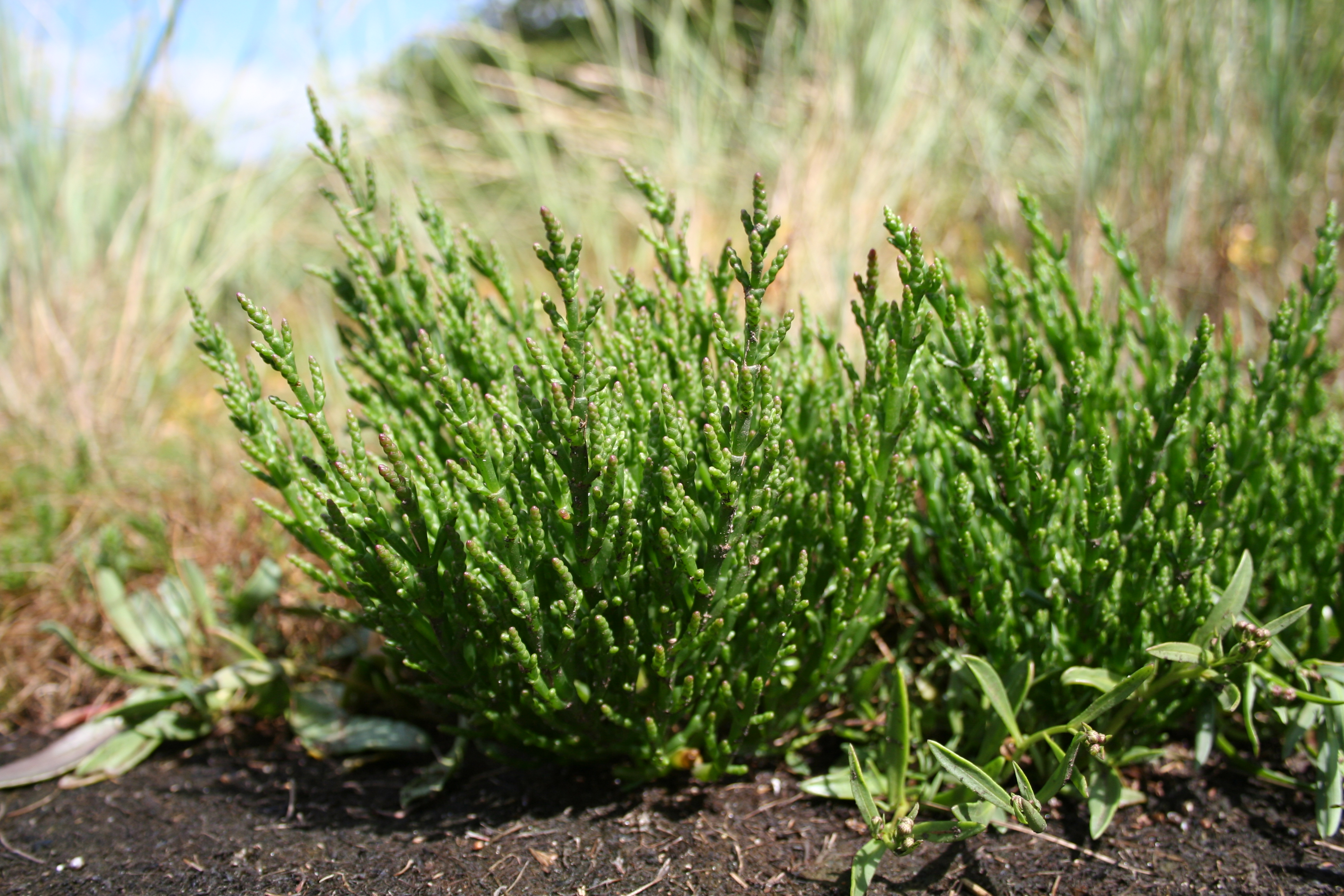 Salicornia europaea, near Southhampton, UK